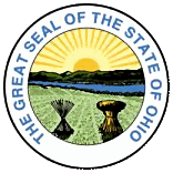 The Ohio state seal.